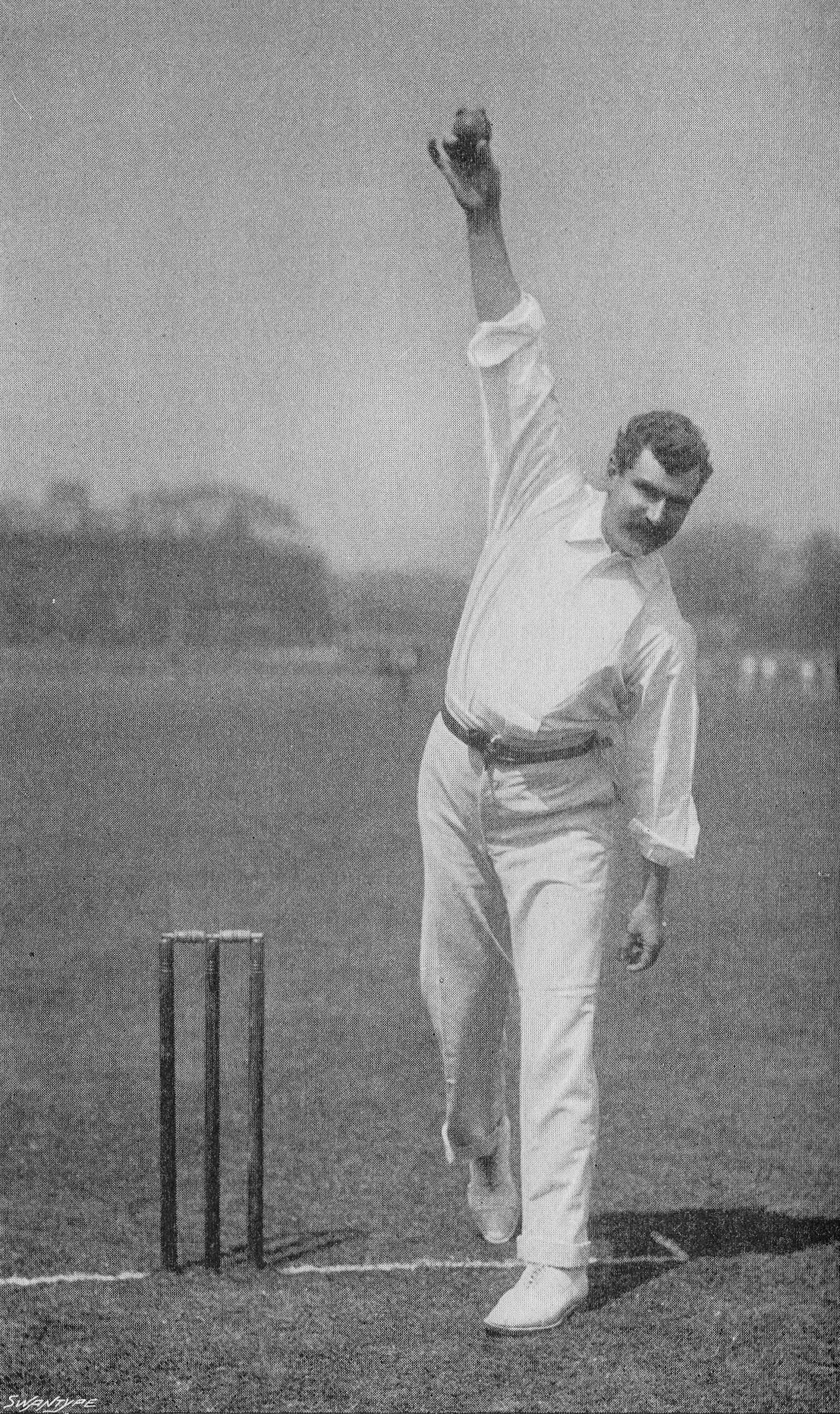 "Richardson in the act of delivery"